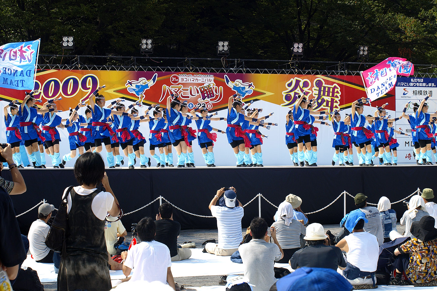 Hamakoi Dance Festival 2009 at the Sawatari Central Park, Yokohama, Japan. The Shonan-Gakuen high school dance team. ハマこい踊り2009での湘南学園チームのパフォーマンス。沢渡中央公園にて。